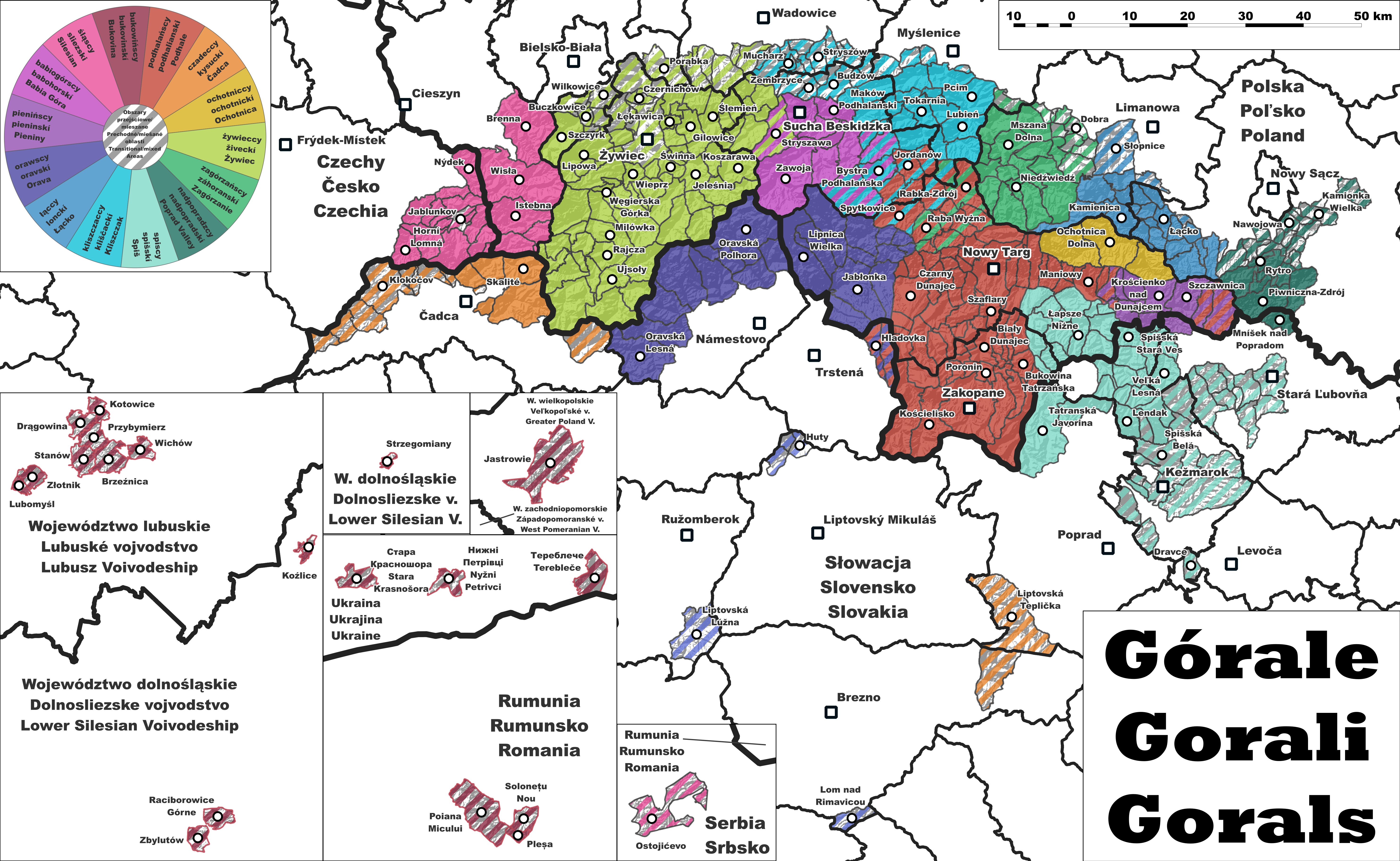 Map of the groups of Gorals in the Western Carpathian Mountains (based on various sources).